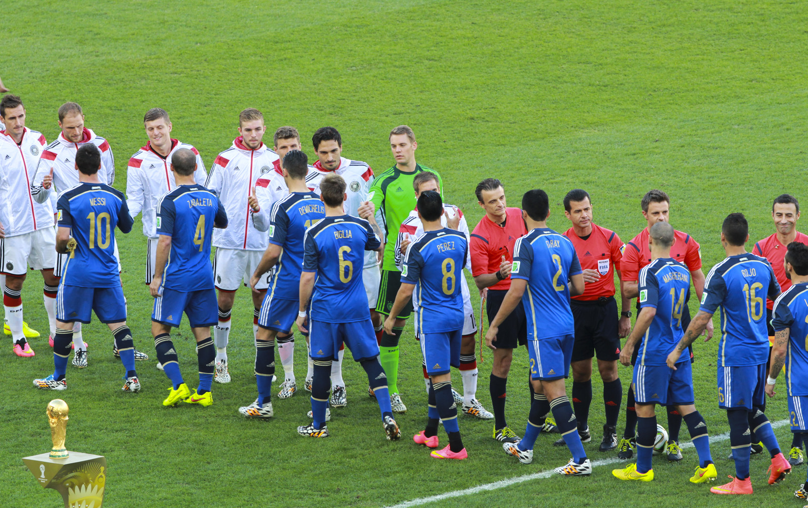 The final match of World Cup 2014 between Germany and Argentina 2014-07-13